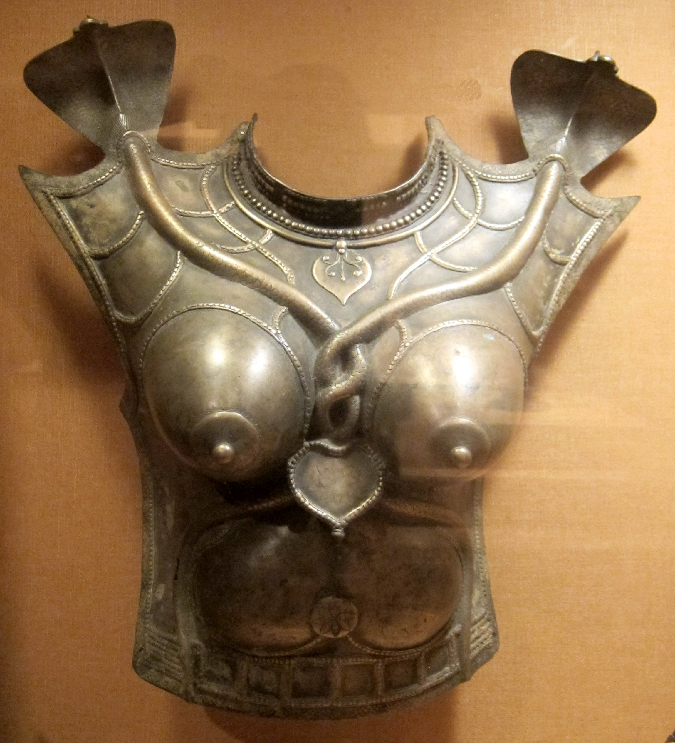 Vārāhī breastplate, India, Kerala, 18th-19th century, brass, Honolulu Museum of Art